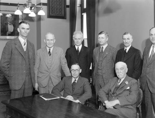 Richard Gavin Reid, Premier of Alberta, and his cabinet